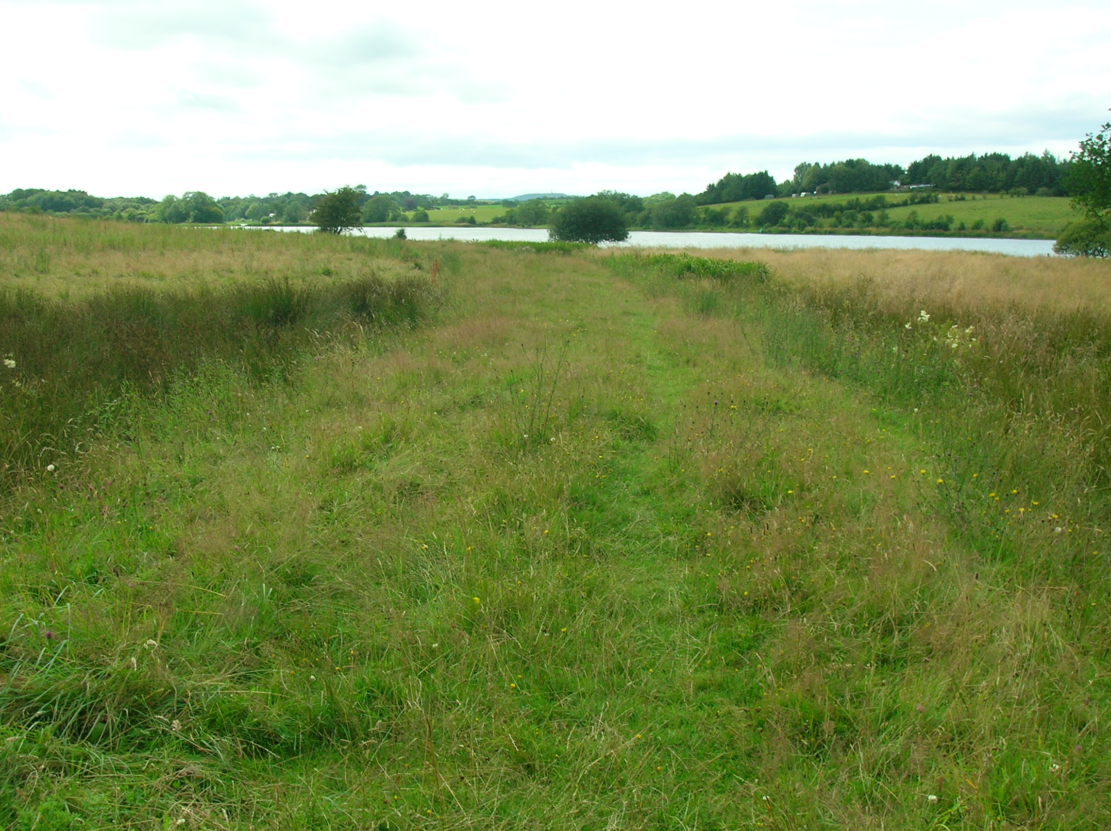 Old railway embankment at Martnaham Loch, Ayrshire, Scotland.